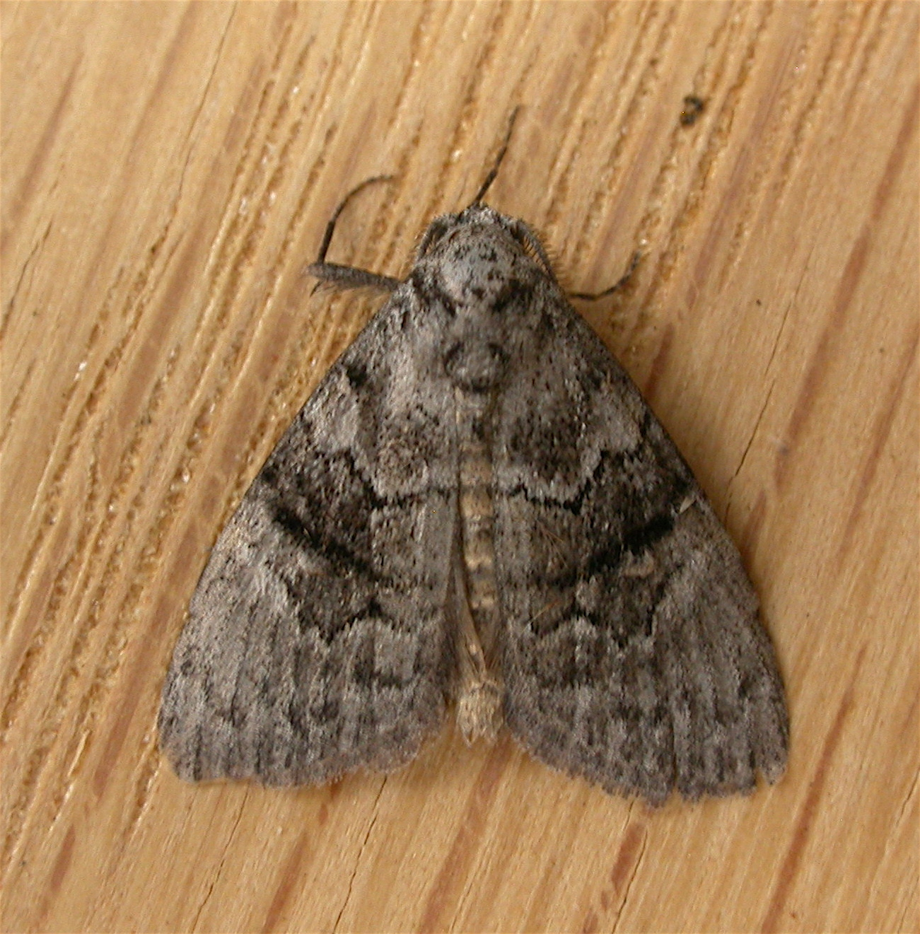 Uraba lugens Walker, 1866, to MV light, Aranda, ACT, 31 October/1 November 2008